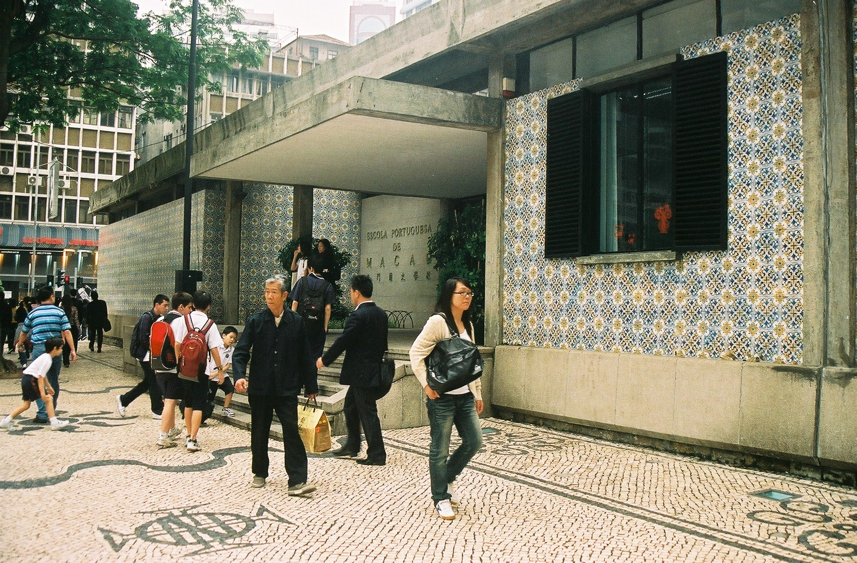 Macau Portuguese School main entrance